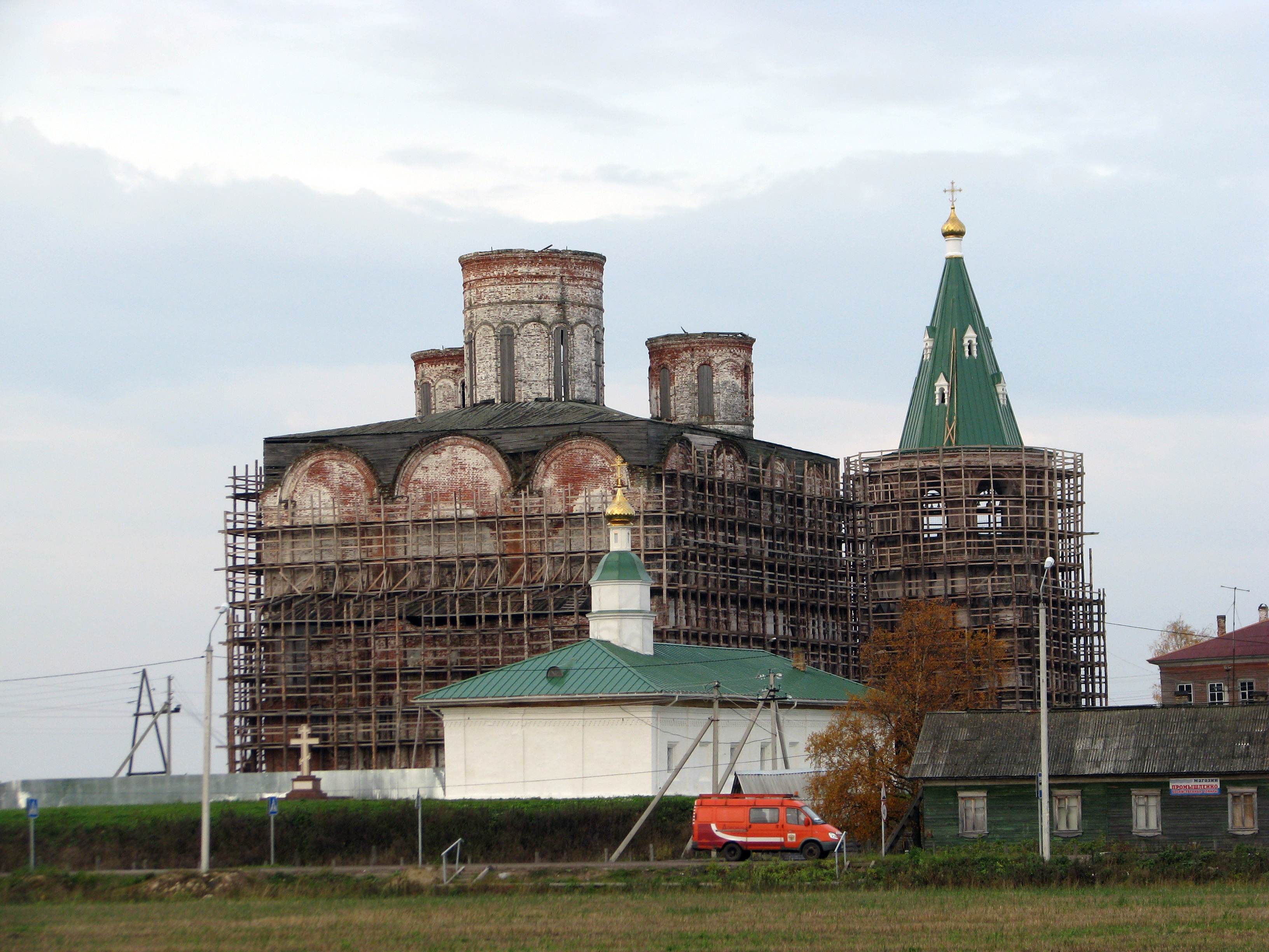 Kholmogory Cathedral, September 25 2010